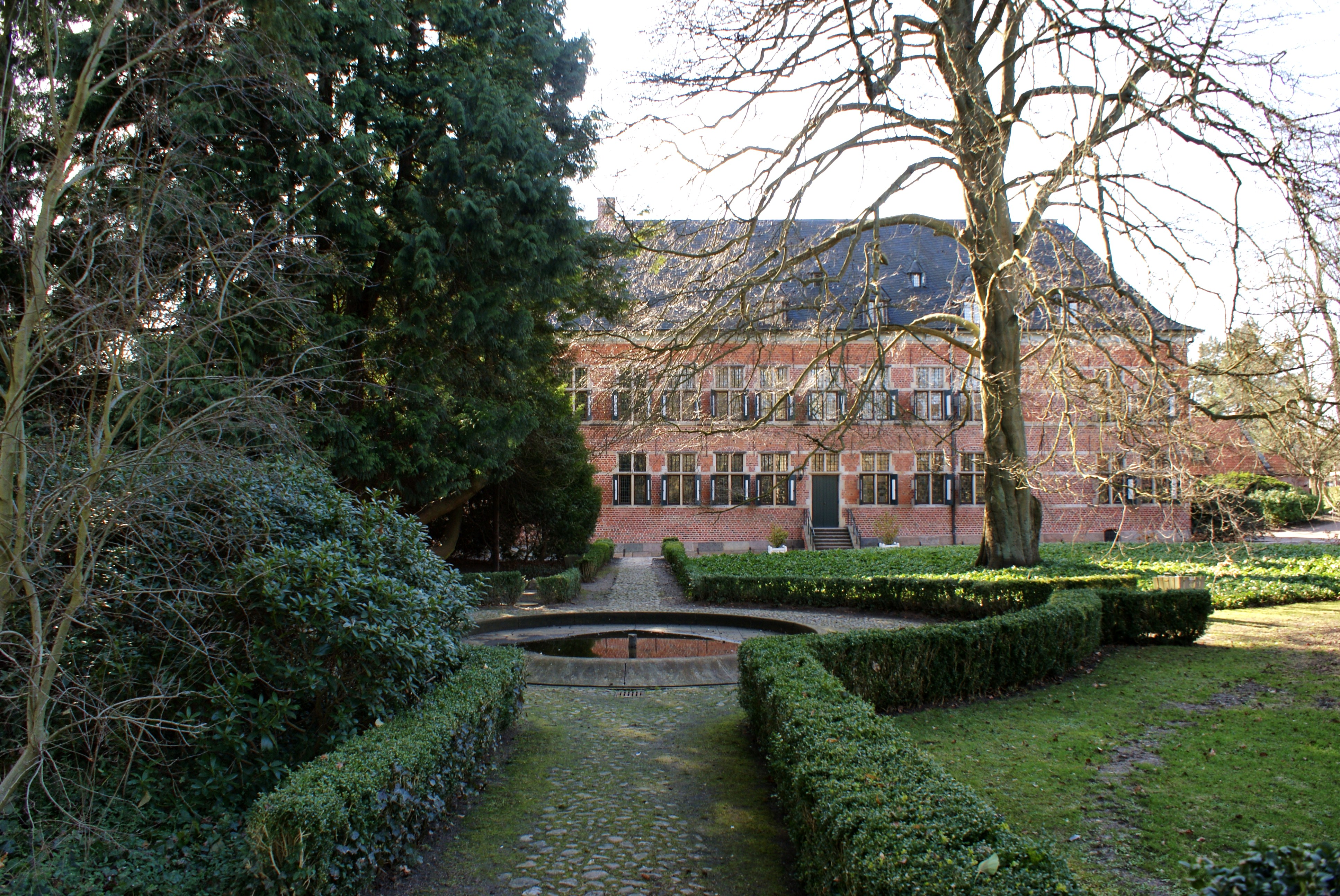 Reinbek Castle, Garden